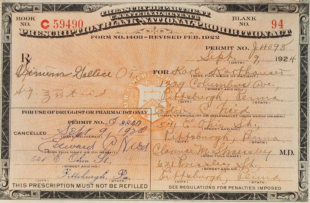 Prescriptions for Medicinal "Spirits". The prescription is labeled 1924 but the form is clearly published in 1922. Further, there are no copyright notices on the document and so I'm pretty sure this is clearly public domain.